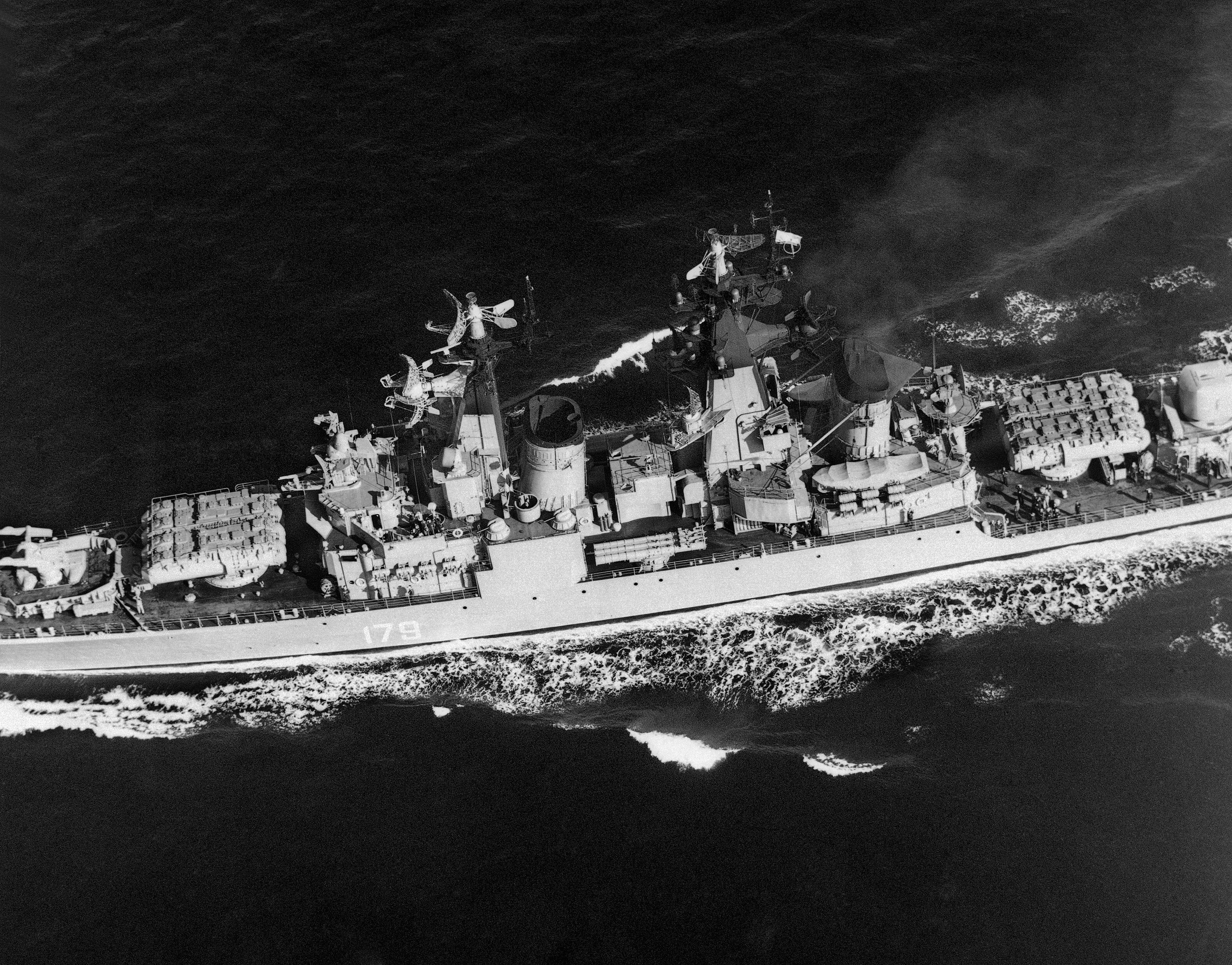 An elevated port amidships view of the Soviet project 58 guided missile cruiser Groznyi underway.